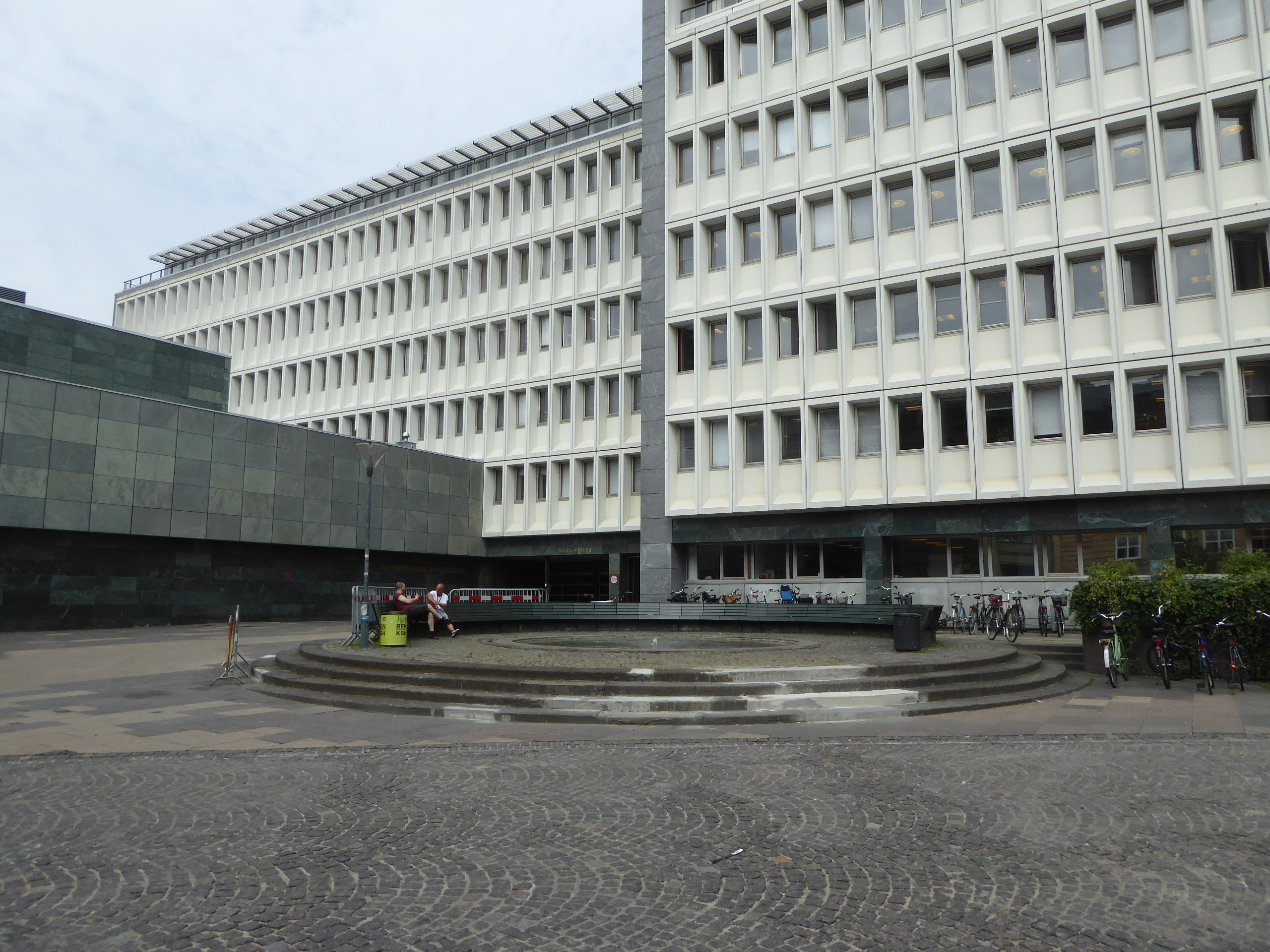 The square Nina Bangs Plads in Indre By in Copenhagen.